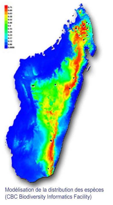 Map (modelisation) of biodiversity in Madagascar (NOA, NASA